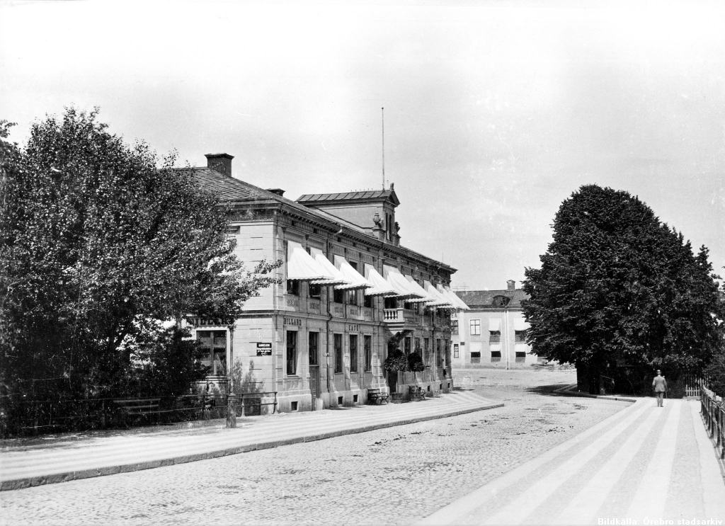 Björkegren's hotel, Örebro, Sweden.